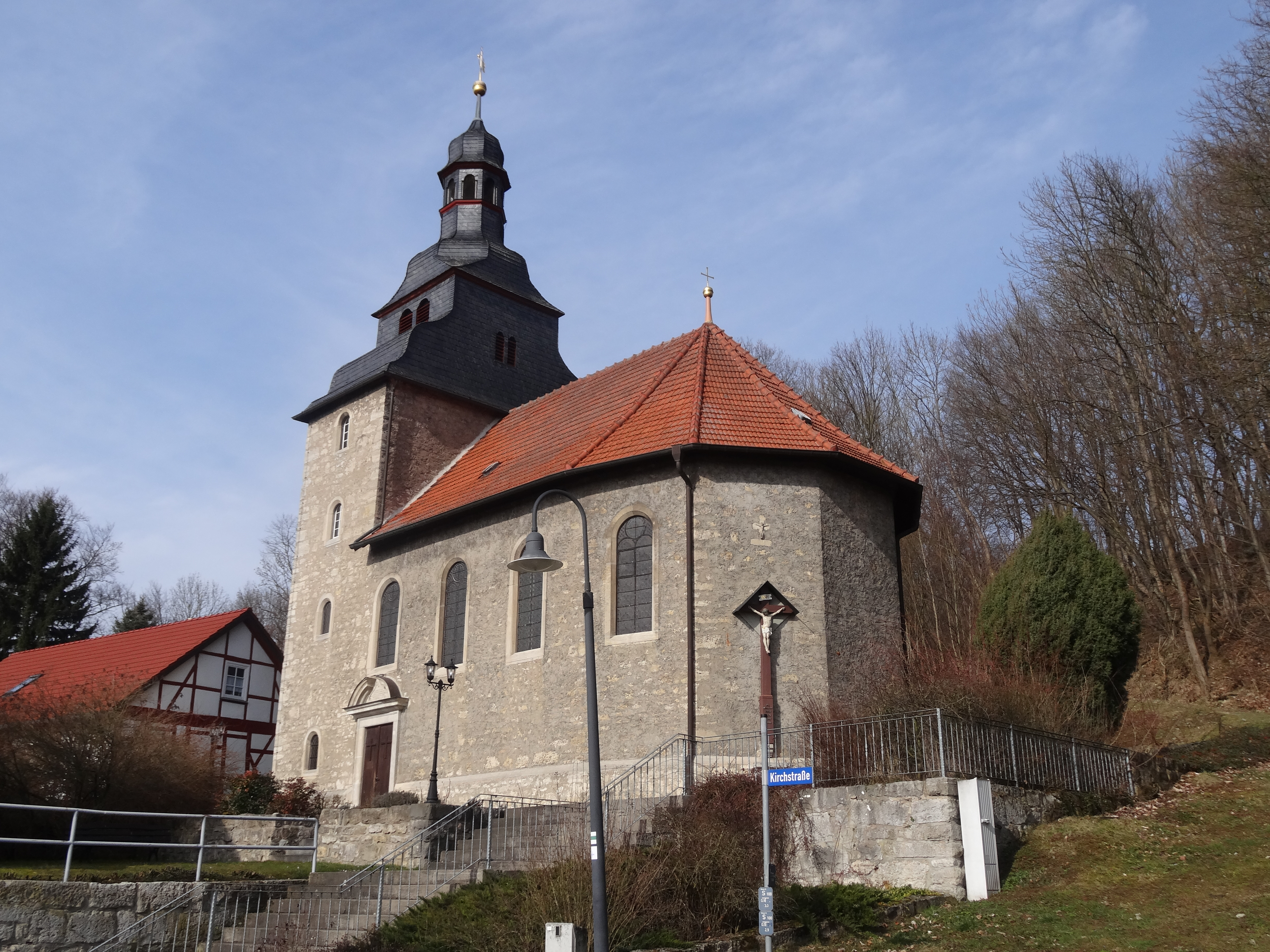 Church in Zella (Anrode), Thuringia, Germany